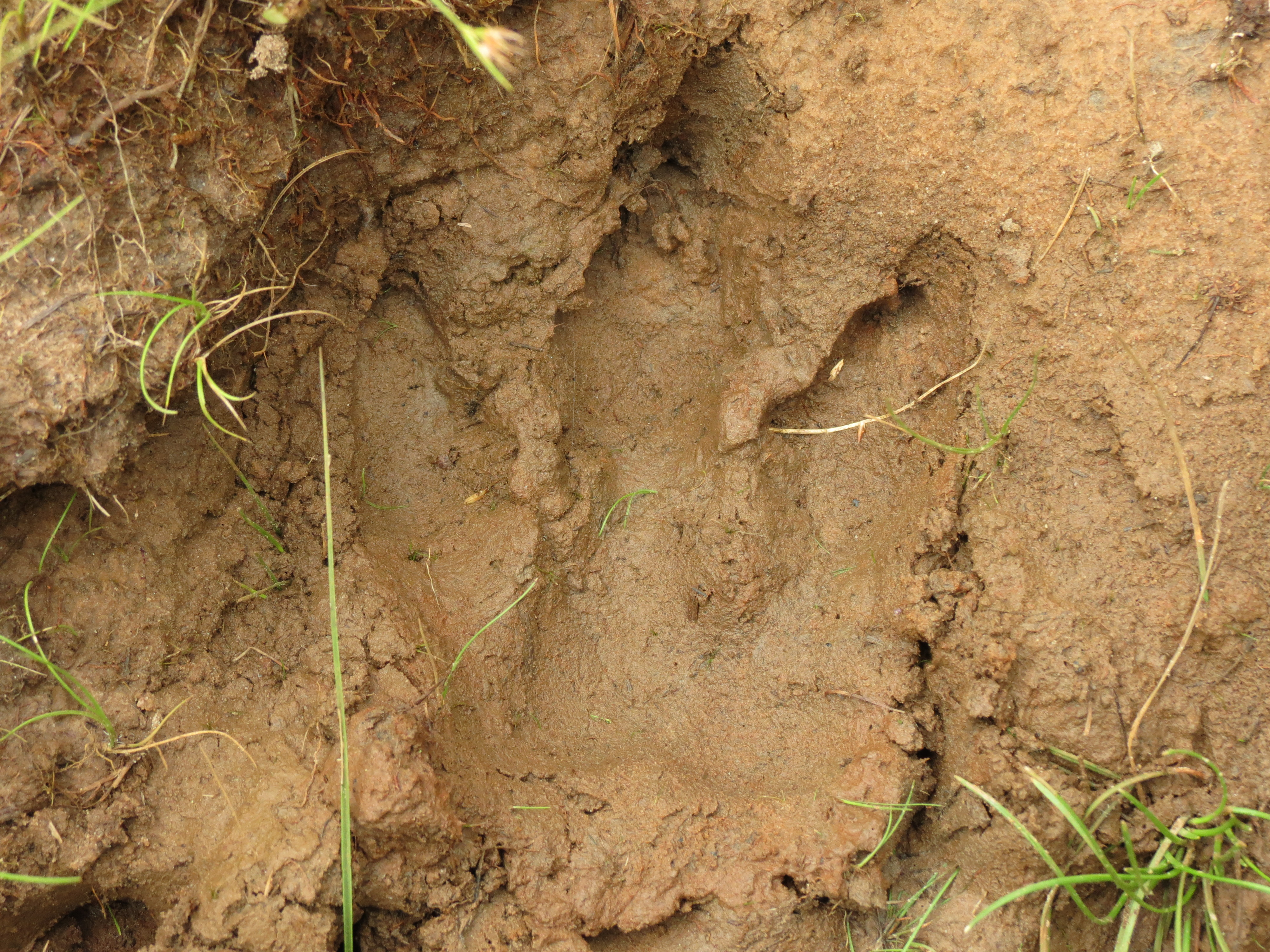 A footprint of a capybara (Hydrochoerus hydrochaeris) in Santa Rita do D'Oeste, Brazil, near a stream.